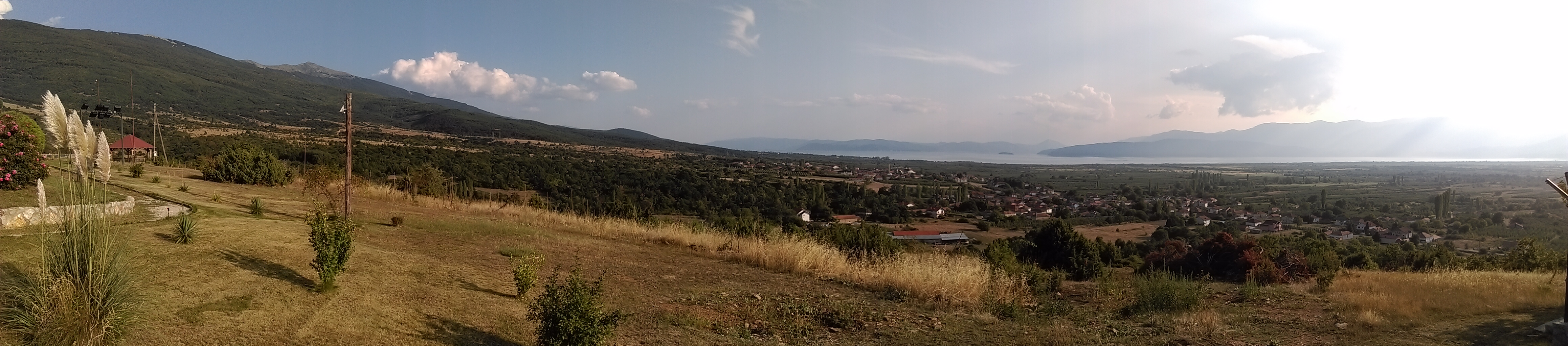 Podmočani village